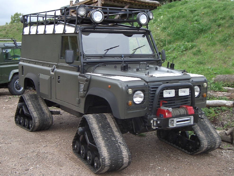 Land Rover Defender Special Vehicle with Chains, Land Rover Museum Gaydon/UK